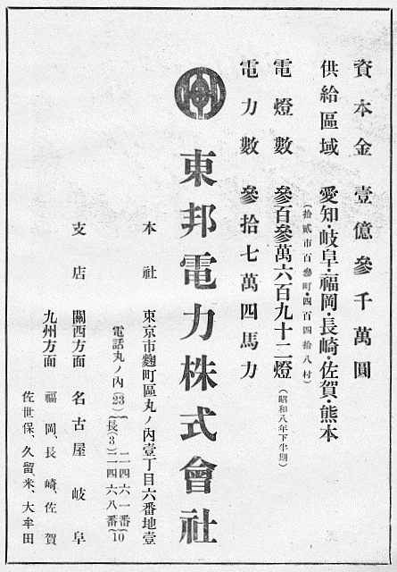 Toho Electric Power Company advertisement in 1930s